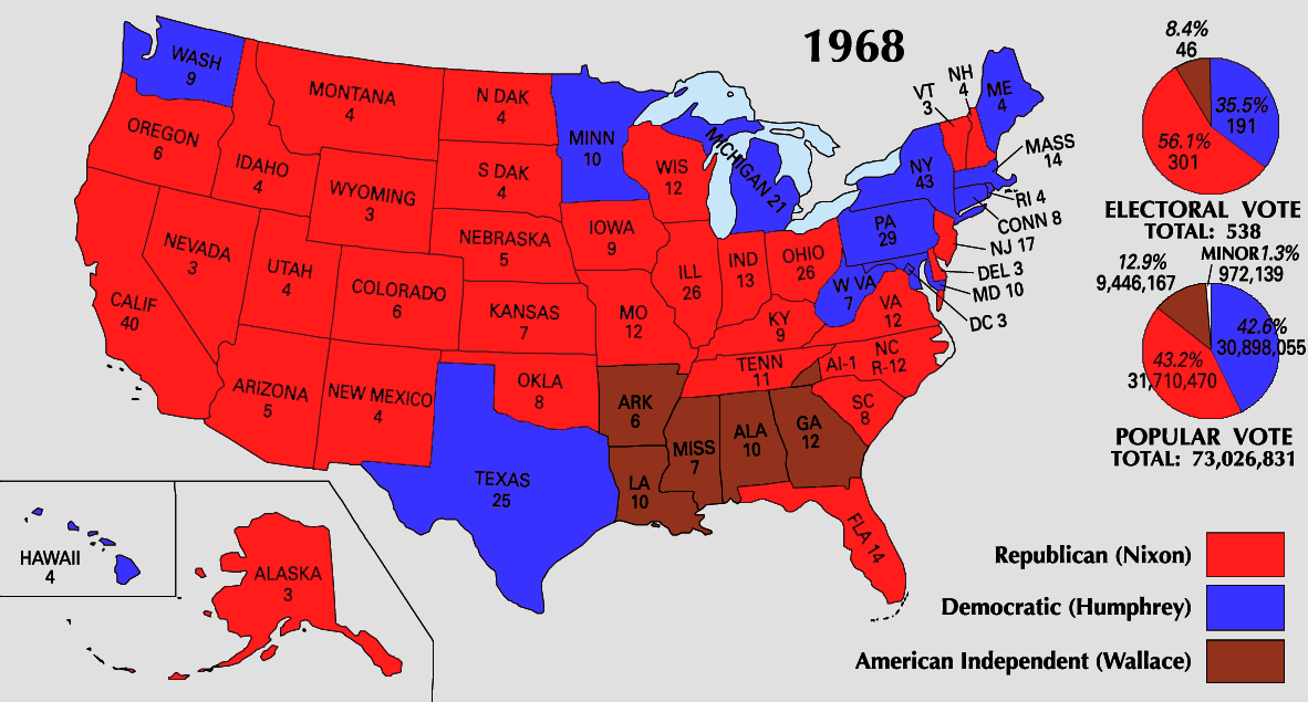 1968 Electoral College Map